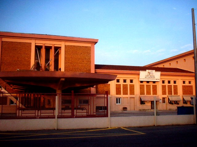 Views of Gallician - a small village near Vauvent in Southern France - Not far from Nimes.